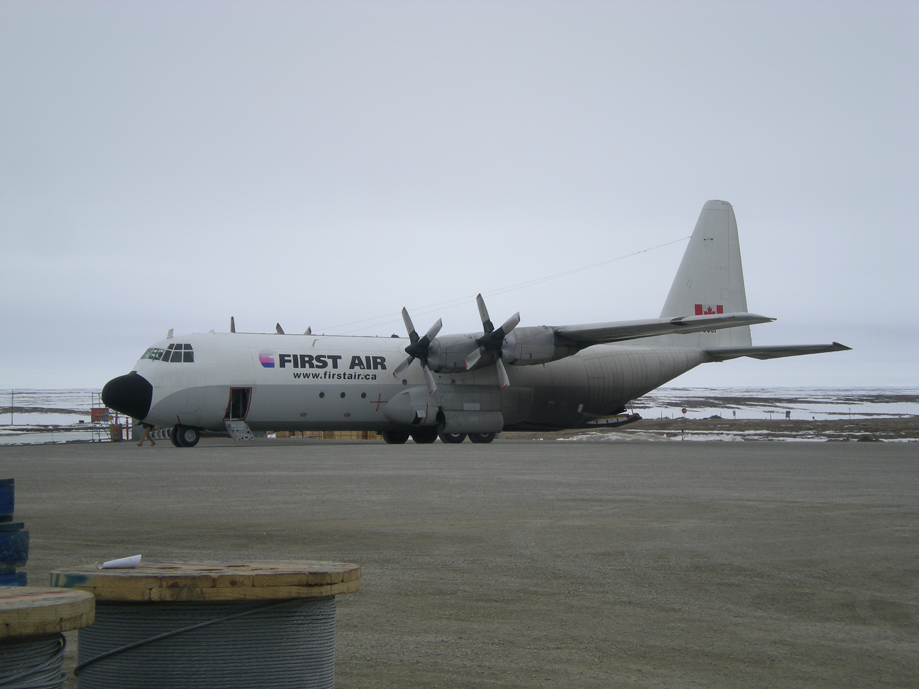 First Air L-100 Hercules cargo aircraft (registration: C-GUSI).